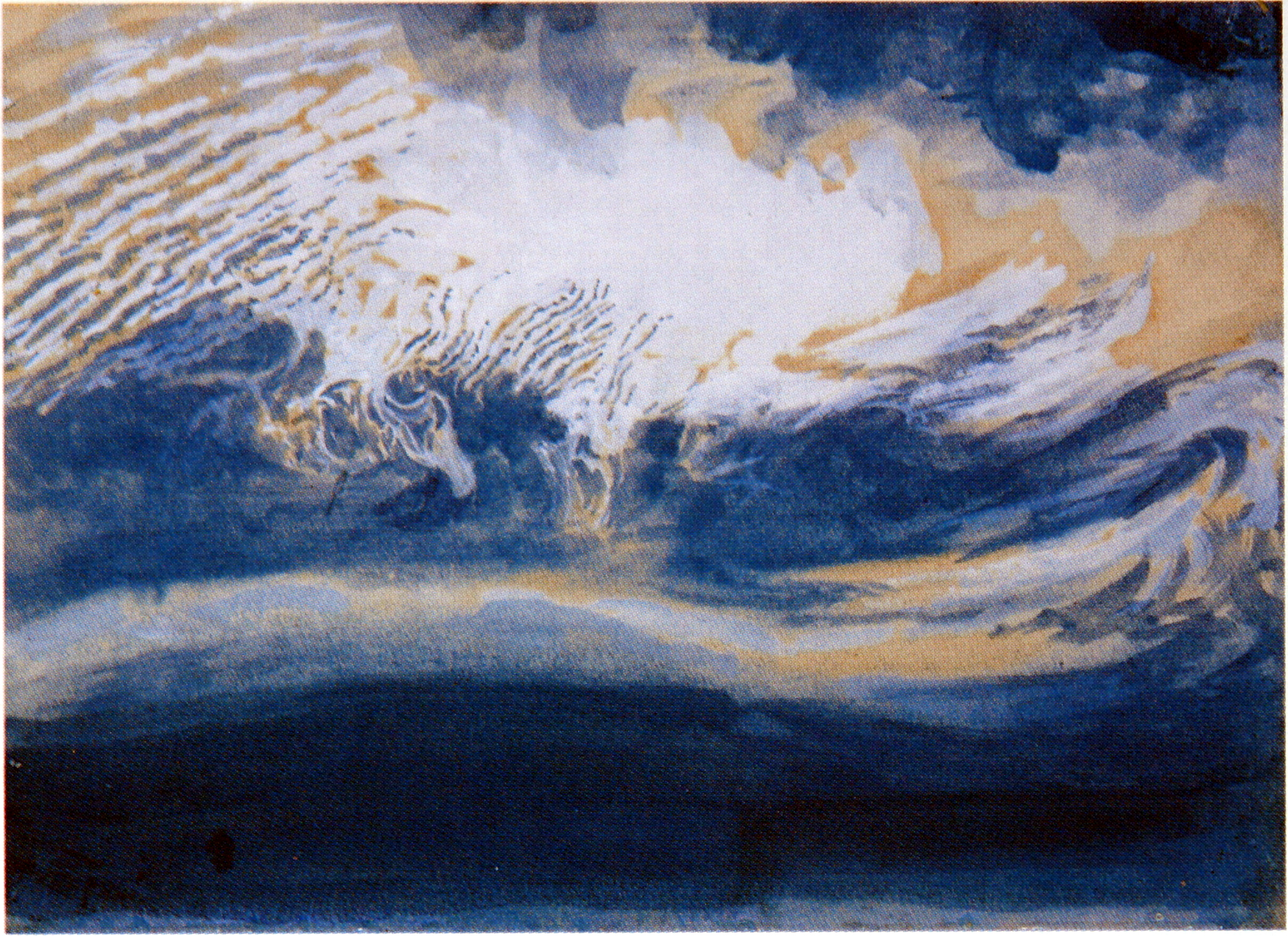 Cloud Study — Ice Clouds over Coniston Old Man. Watercolour, 12.5x 17 cm